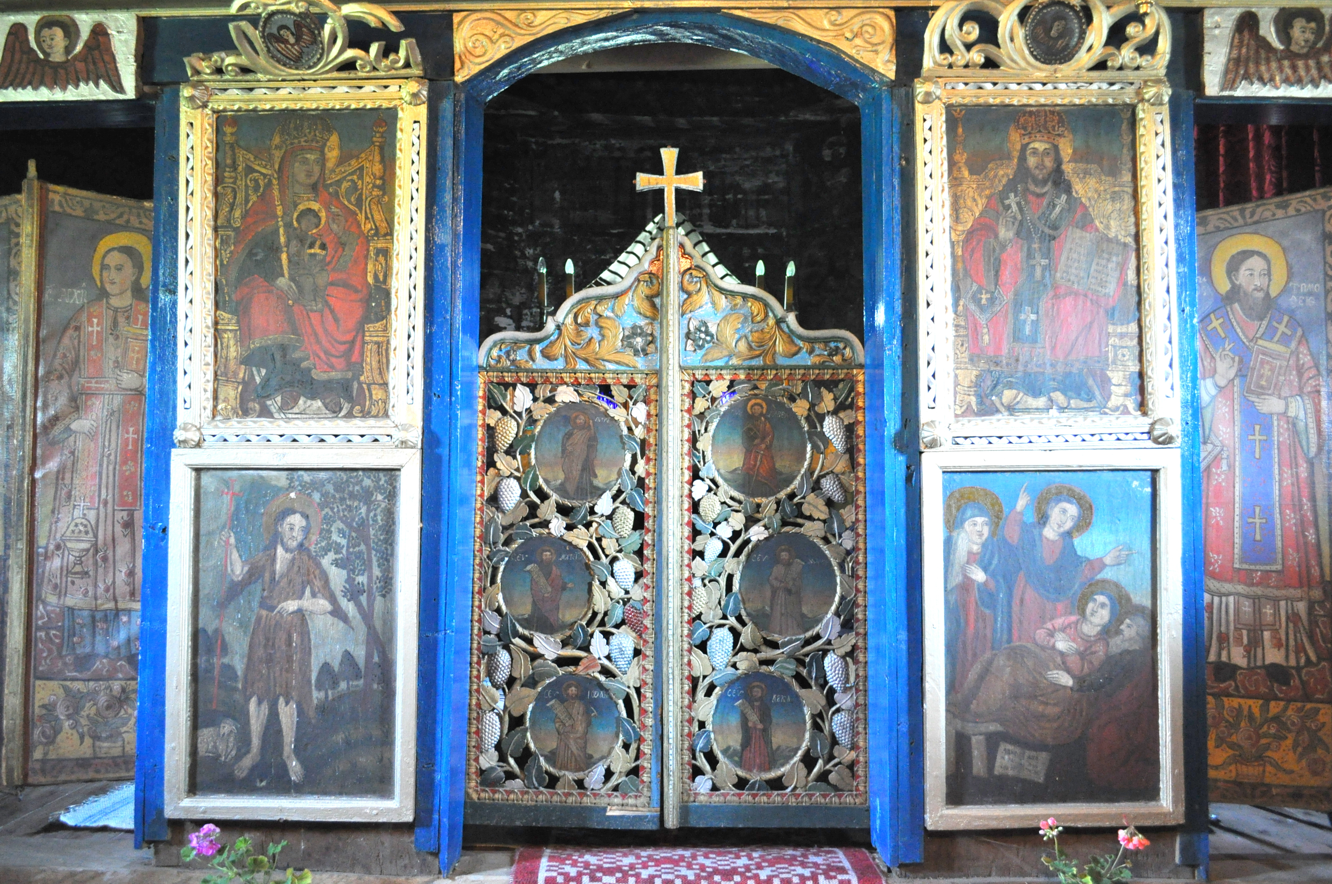 Wooden church in Săcalu de Pădure, Mureș countyRomână: Biserica de lemn din Săcalu de Pădure, județul Mureș